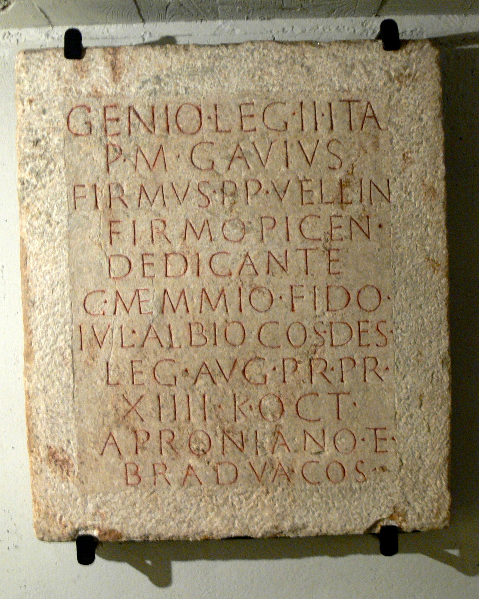 Lorch ( Enns/Upper Austria ). Basilica of Saint Lawrence:Ancient Roman votive with the inscription: "GENIO LEG(ionis) II ITA(licae) P(iae) M(arcus) GAVIUS FIRMUS P(rimus) P(ilus) VELIN(a) FIRMO PICEN(o) DECICANTE C(aio) M(e)MMIO FIDO IUL(io) ALBIO CO(n)S(ule) DES(ignato) LEG(ato) AUG(gusti) PR(o) PR(aetore) X IIII K(alendas) OCT(obres) APRONIANO ET BRADUA CO(n)S(ulibus)." ( to the Genius of the second Italian Legion, with the honorary title "devoted to the emperor", donated by Marcus Gavius Firmus, highest ranking captain of the legion, from Firmum Picenum in the district of Velina. The consecration was made by Gaius Memmius Fidus Iulius Albius, designated consul and imperial legatus ( Gouvernor of the province of Noricum and commander of the legion ) at September 18th during the consulate of Apronianus and Bradua ( 191 AD ).)